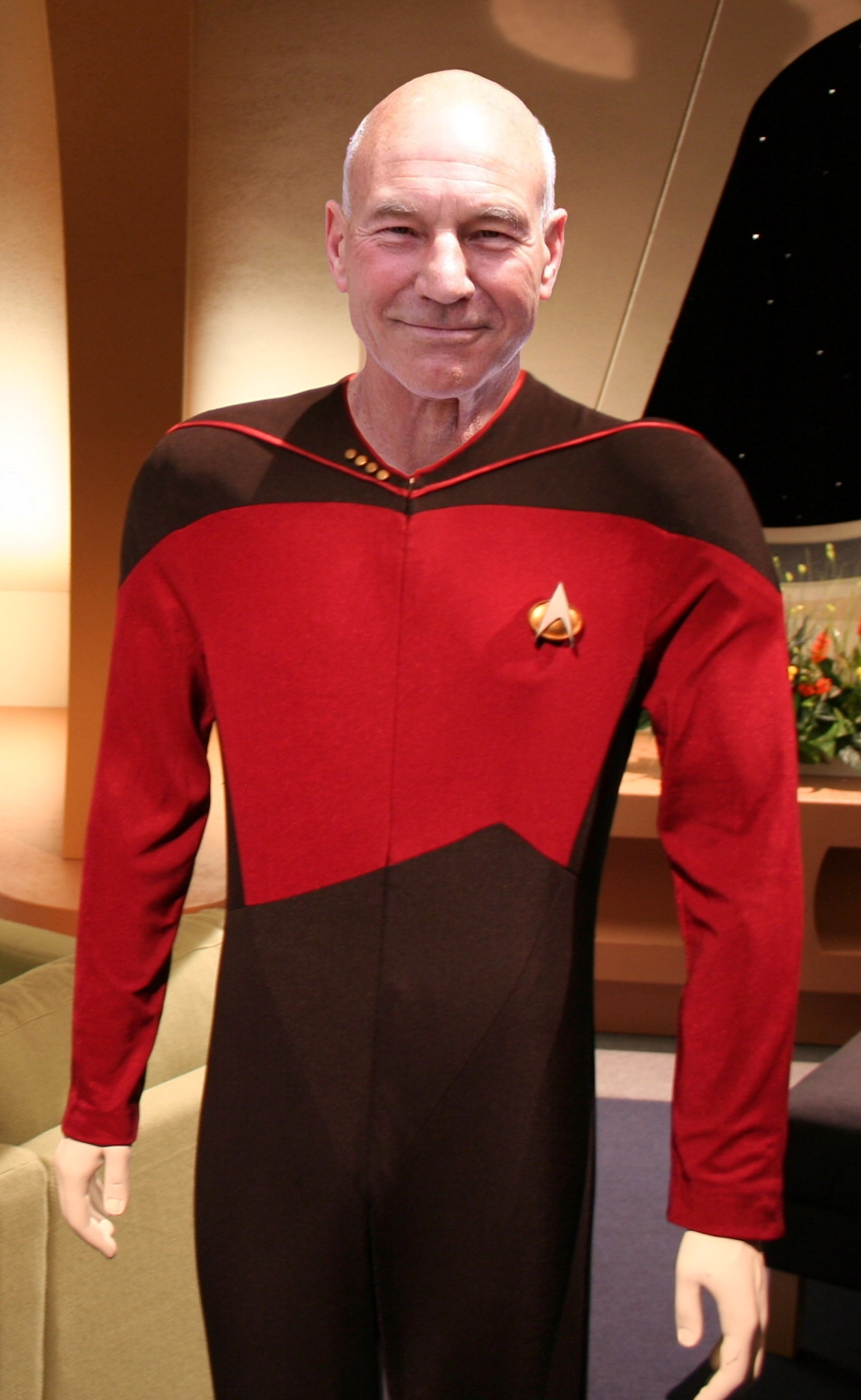 A derivative collage from two other files - captain Jean-Luc Picard in his quarter on the USS Enterprise-D